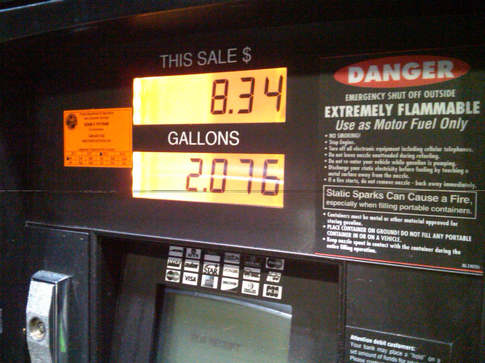 A modern fuel pump display at a gas station on Jacksonville's Westside. Photo by Anthony M. Inswasty